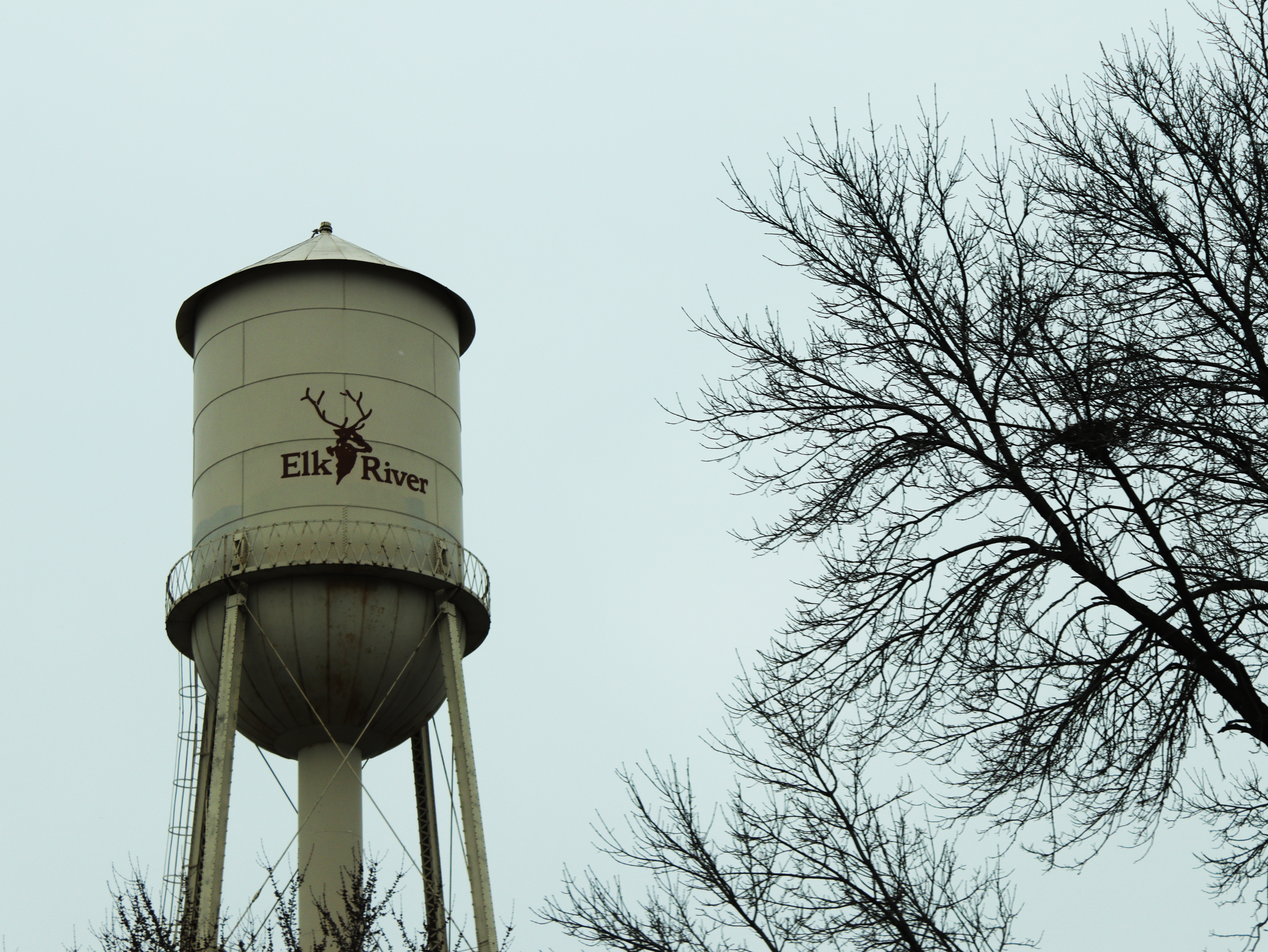 Elk River water tower near the Elk River Ambulance Service.